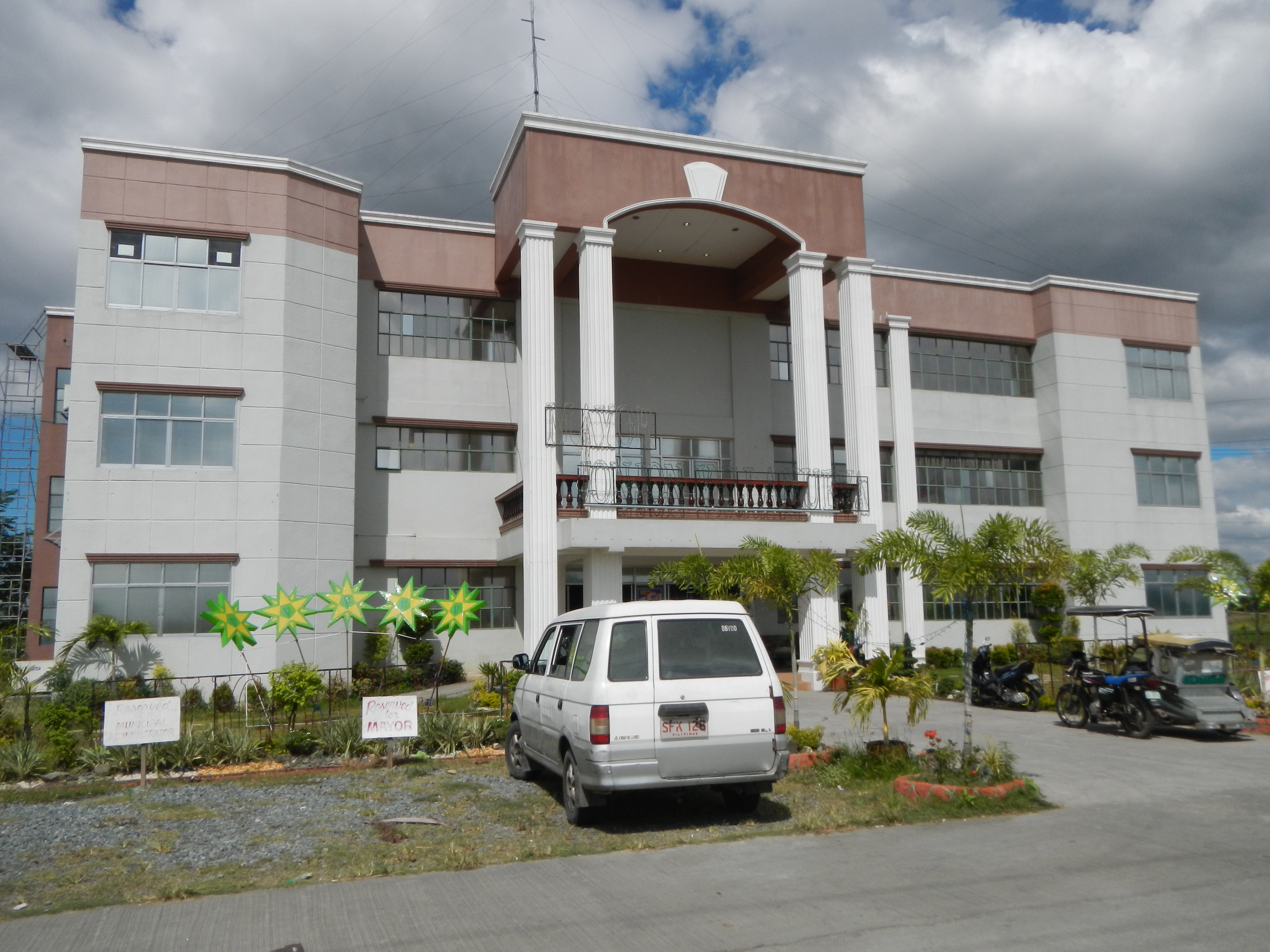 Upload Wizard photos of - Biñan I Elementary School along MacArthur Highway, towards the New Bocaue Town Hall Bocaue, Bulacan[1].